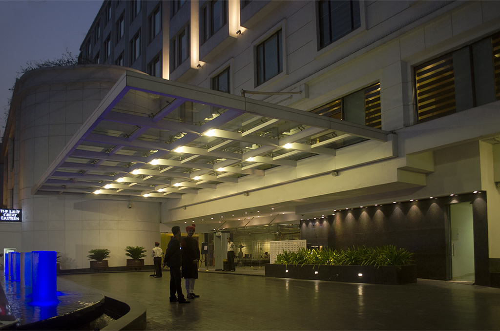 The Lalit Graet Eastern Hotel (Kolkata), entrance